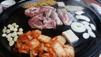 Řřhğđßßß